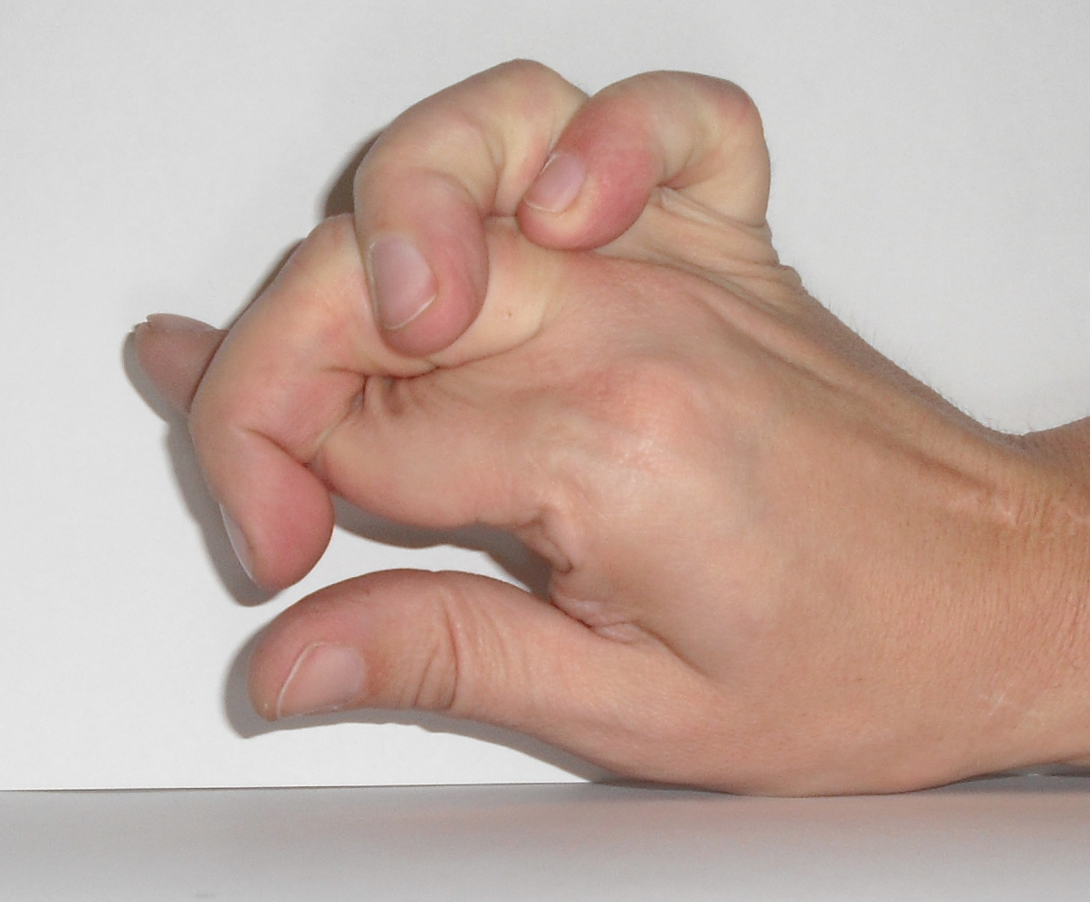 Hypermobility "Fingersnake"